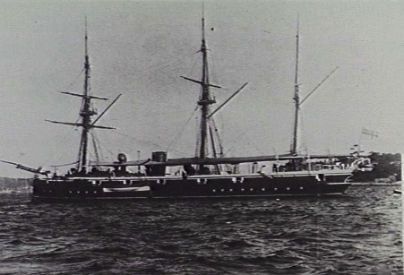 AWN caption : "SYDNEY, NSW. C.1890. PORT SIDE VIEW OF THE SCREW CORVETTE HMS ROYALIST. NOTE THE 5 INCH GUNS PROTRUDING FROM THE GUN PORTS IN HER WAIST."